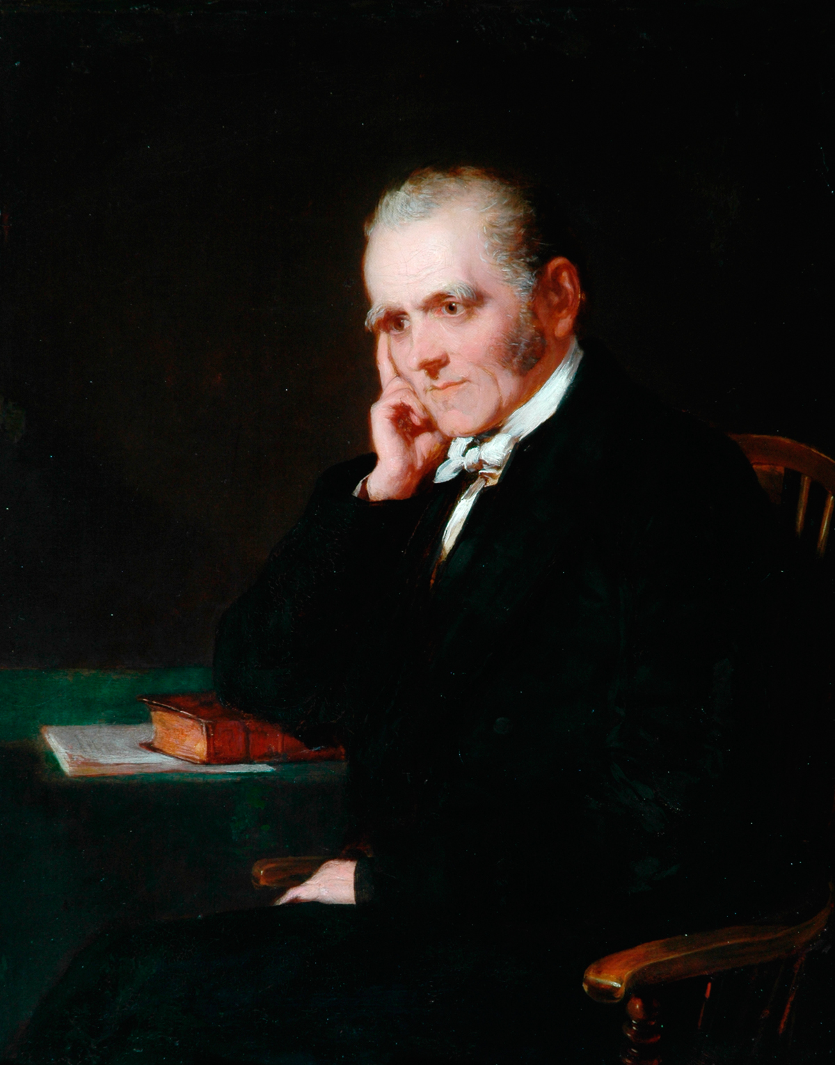 Portrait painting of John Fielden MP, 1845, seated, wearing black suit and white bow tie, resting an elbow on a book.